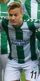 Konyaspor 2016-17 Squad